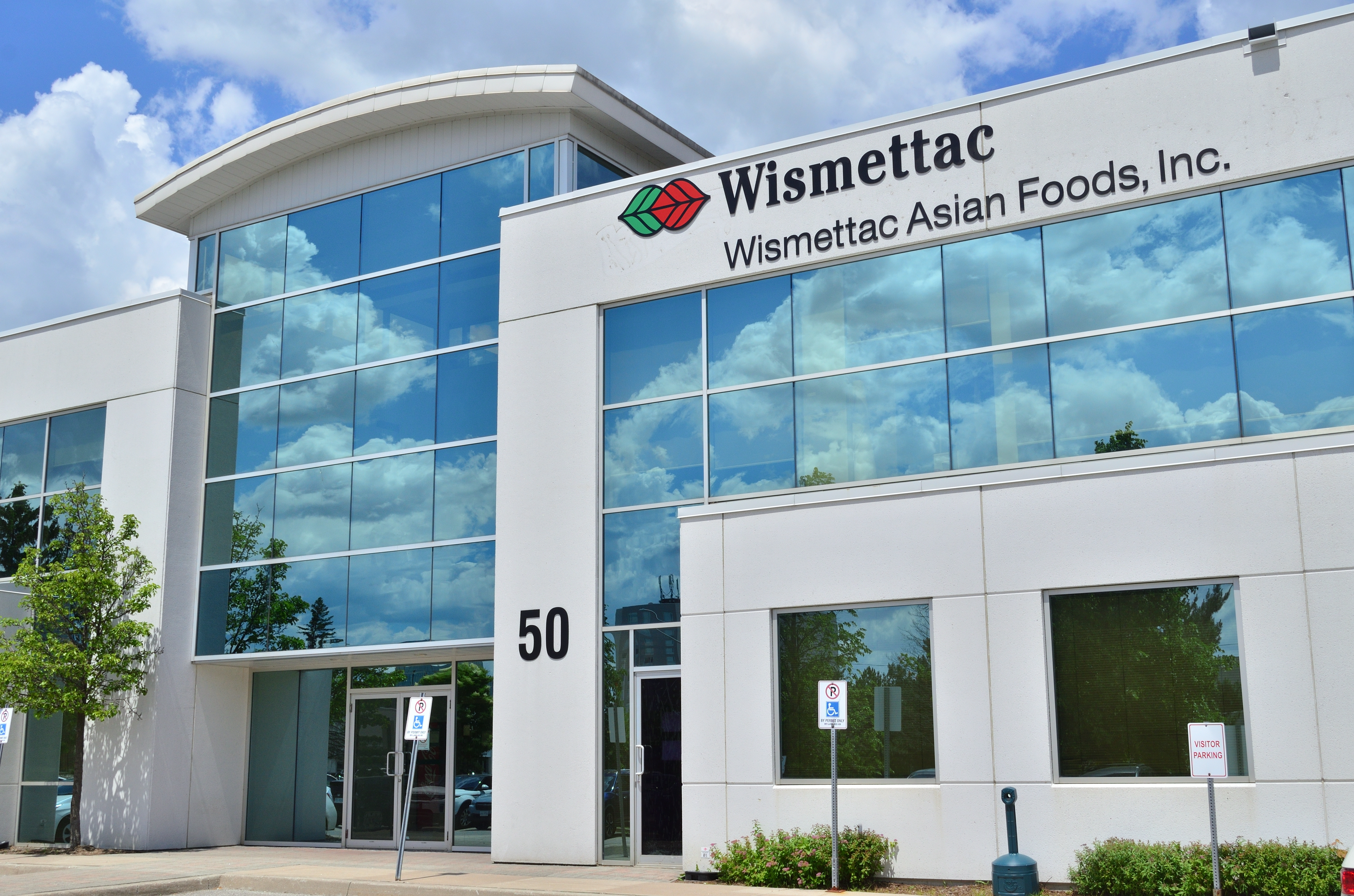 Wismettac Asian Foods - Address: 50 Fulton Way, Richmond Hill, ON L4B 1J5